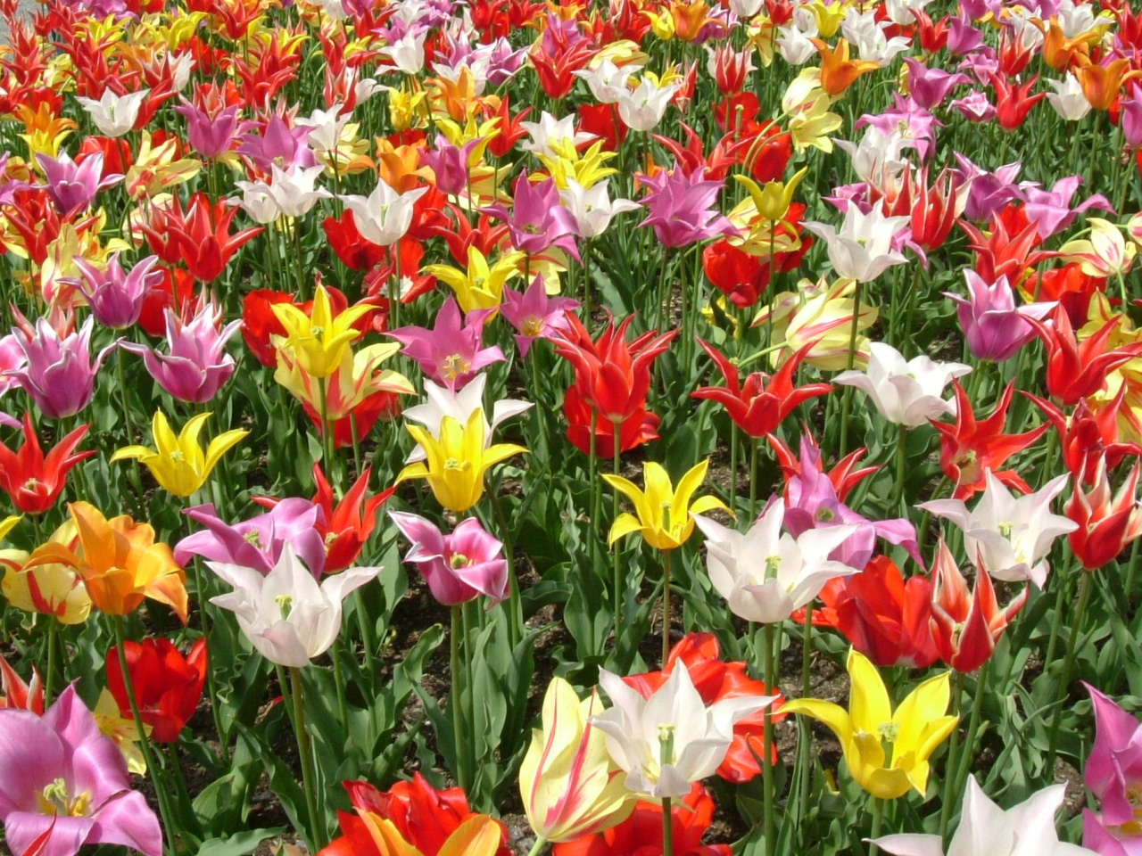 ユリ咲き系チューリップ (Lily-flowered Tulips) 京都府立植物園 (Kyoto Botanical Garden)